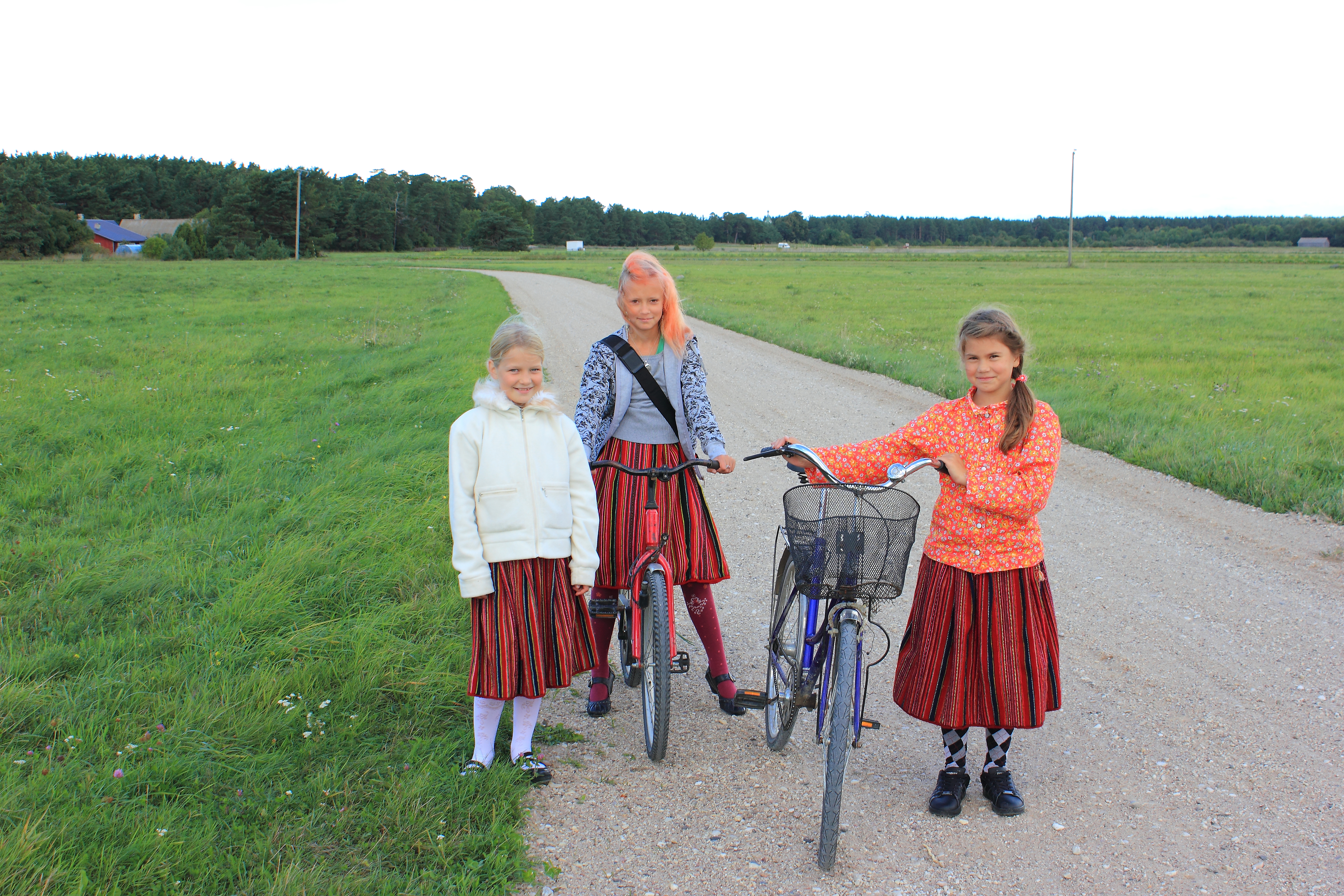 School girls coming from school in the first day of september. Kihnu, Estonia.